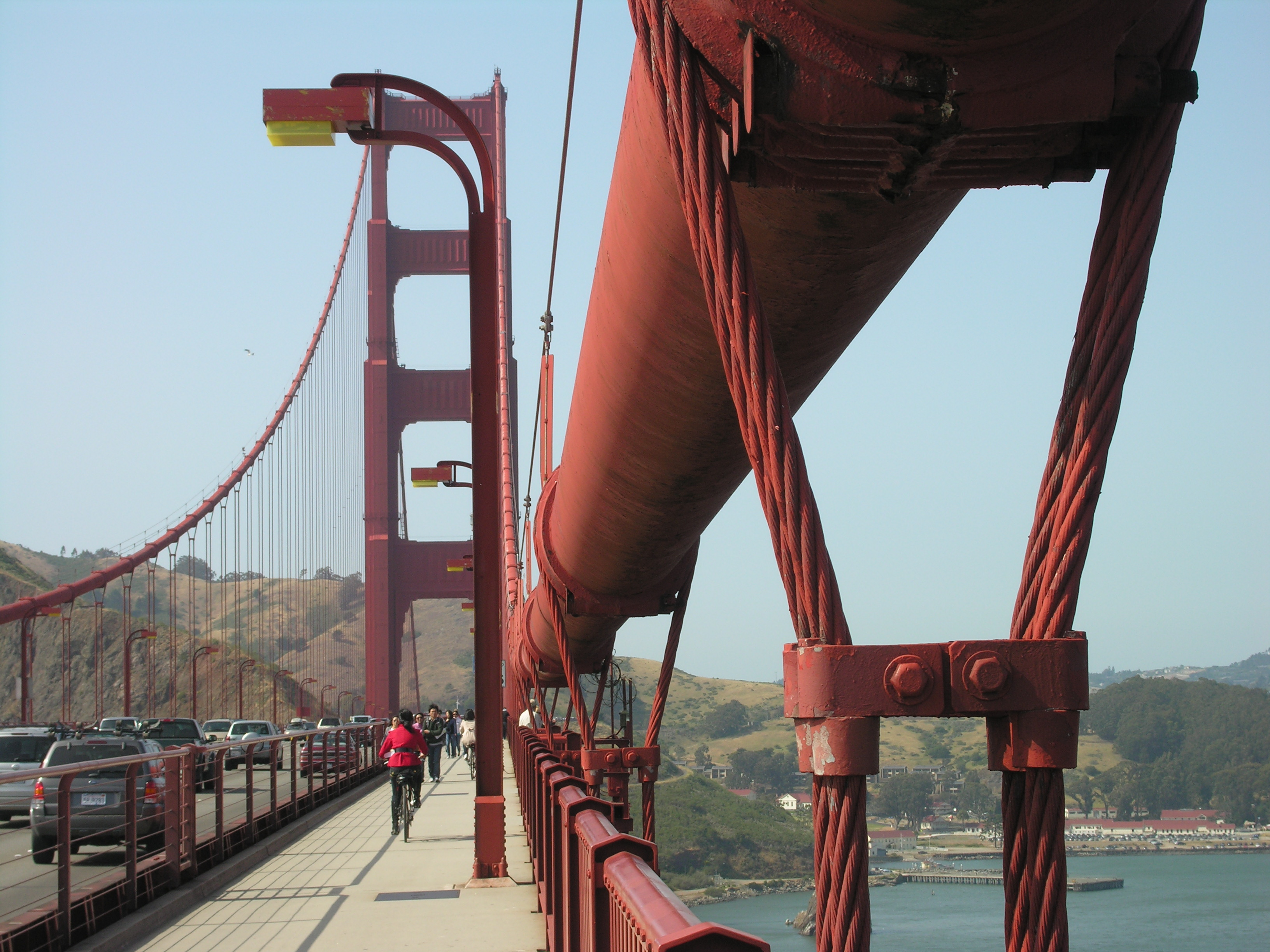 Suspension cables of San Francisco Golden Gate bridge